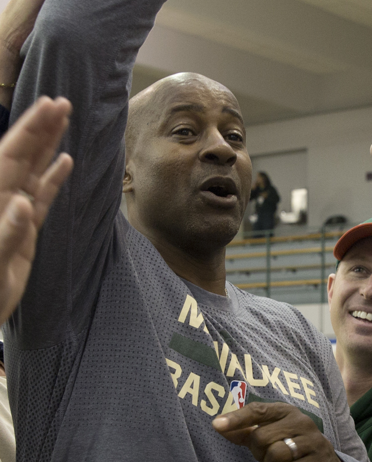 Former Milwaukee Bucks guard and NBA All-Star Sidney Moncrief (center) leads a group of military service members and military veterans in a “Go Bucks!” cheer at the Bucks’ practice facility in St. Francis, Wisconsin, Friday, Nov. 13. The Bucks, in conjunction with Waukesha Metal, hosted multiple events honoring Milwaukee-area Veterans during Veterans Day week (Nov. 3-11). “This is the Bucks’ way of saying ‘Thank you for your service, for your commitment to our community,’” said former Milwaukee Bucks guard and NBA All-Star Sidney Moncrief.